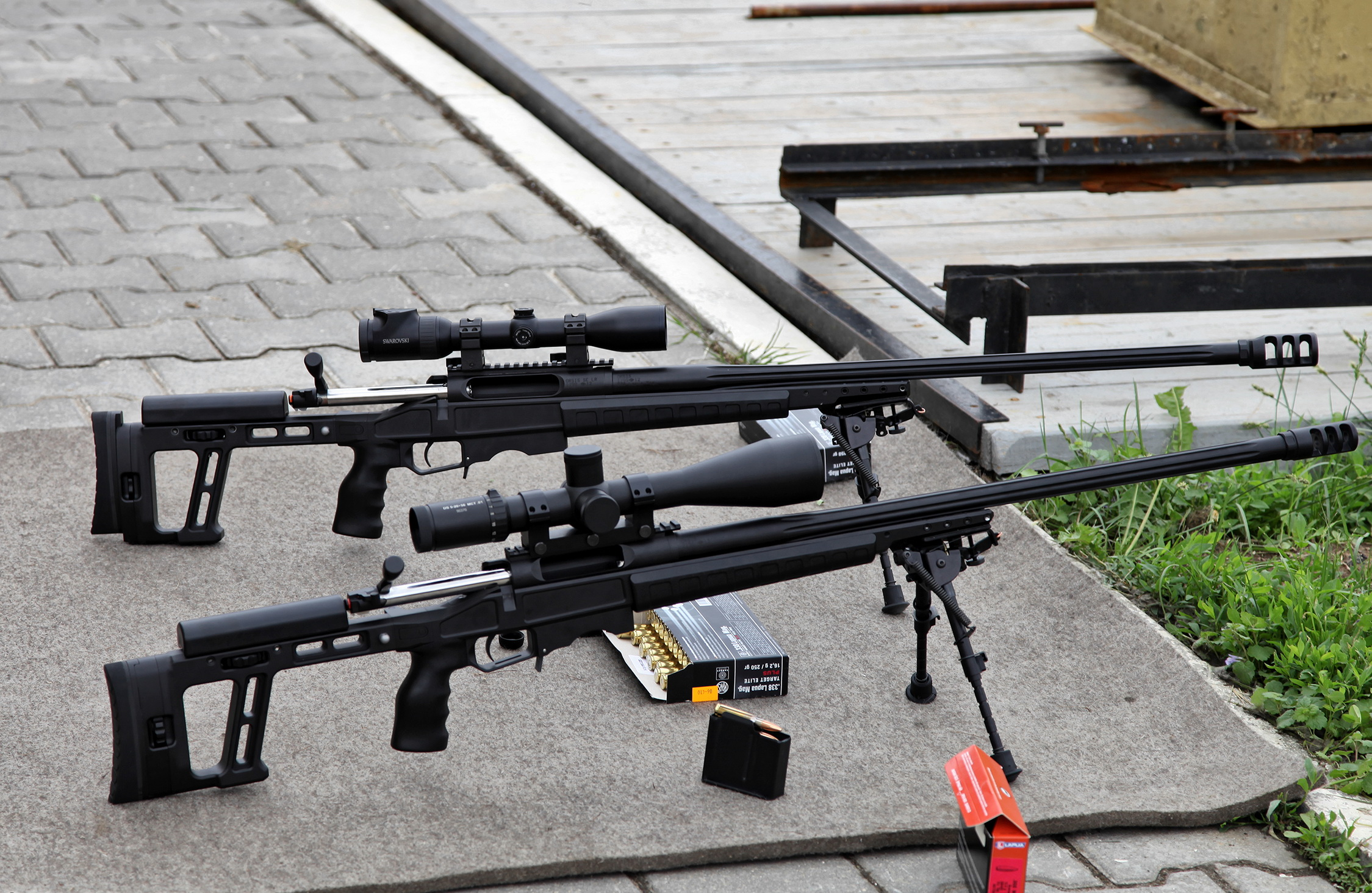 ORSIS T-5000